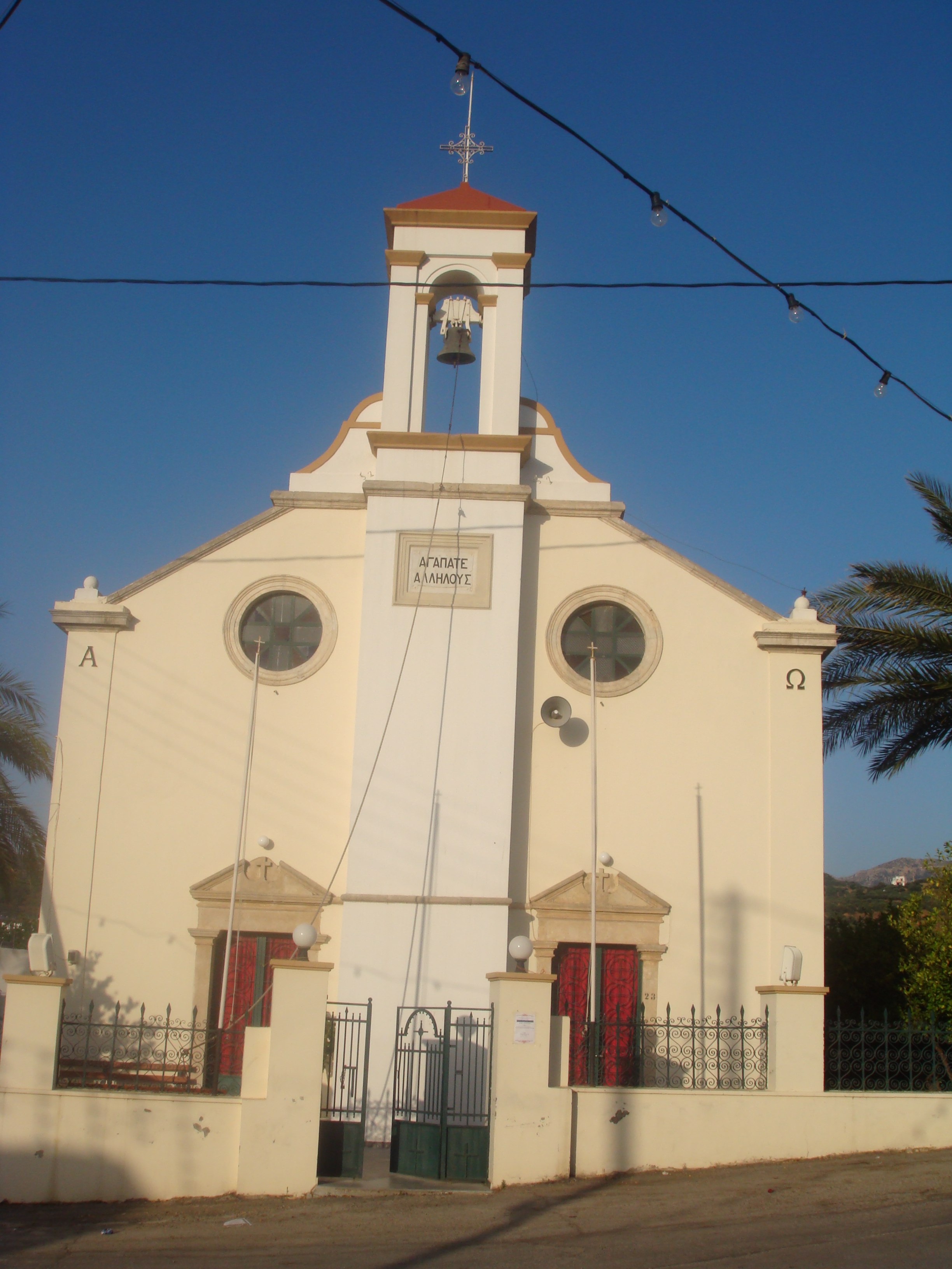 Church of Agios Antonios, in Kastelli, Iraklion prefecture.